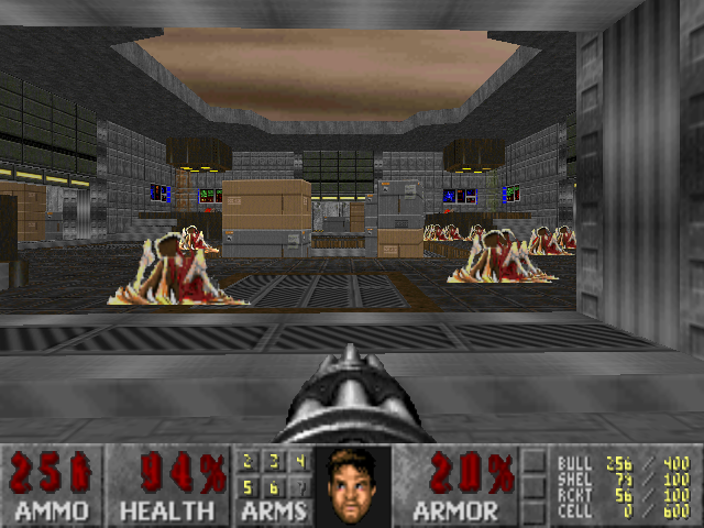 FreeDoom screenshot, level 7 (version 0.6.4)